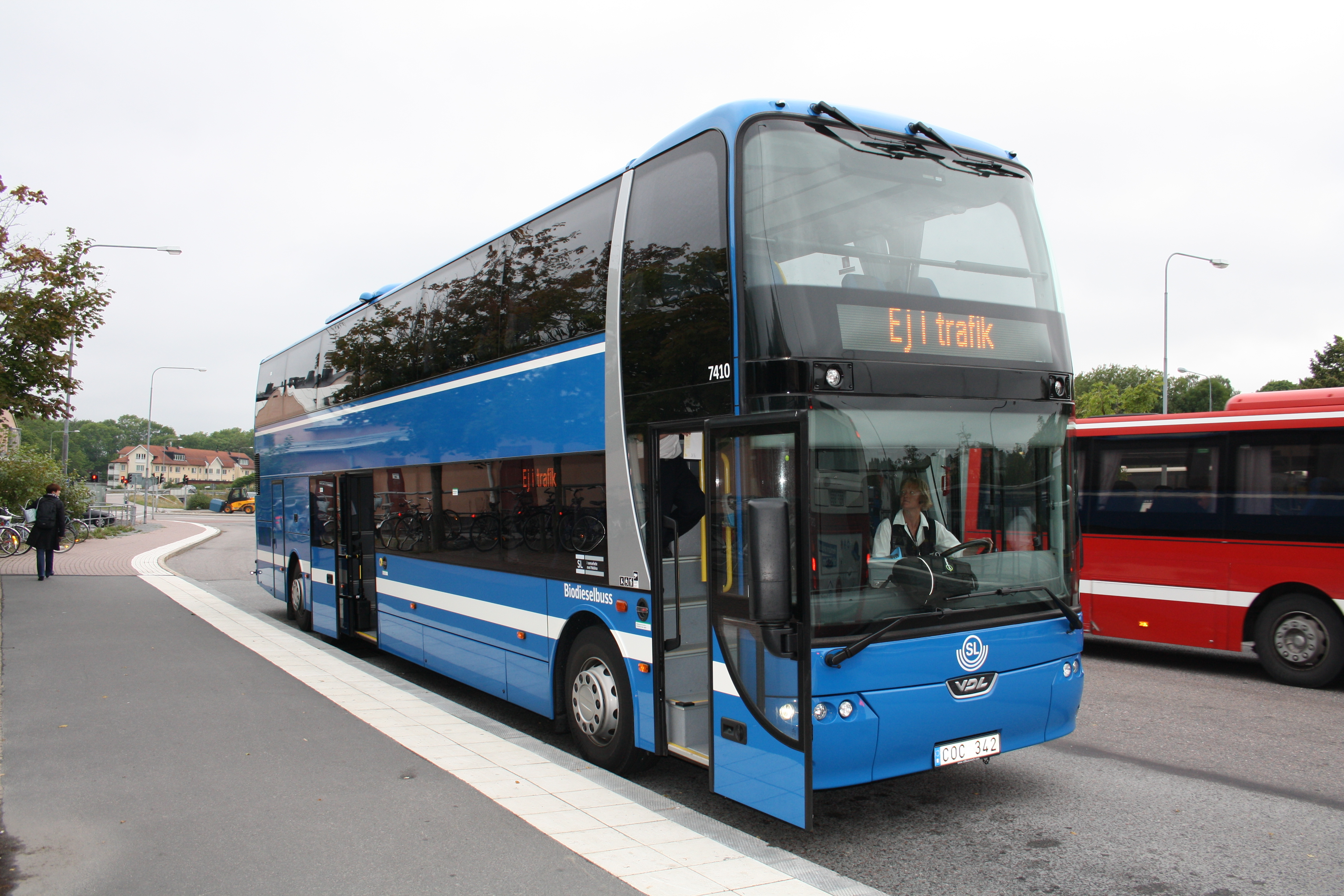 VDL Synergy SDD138-510 double-decker coach (reg. COC 342, #7410) in Norrtälje Station, Stockholm, Sweden. Built 2011. Storstockholms Lokaltrafik.